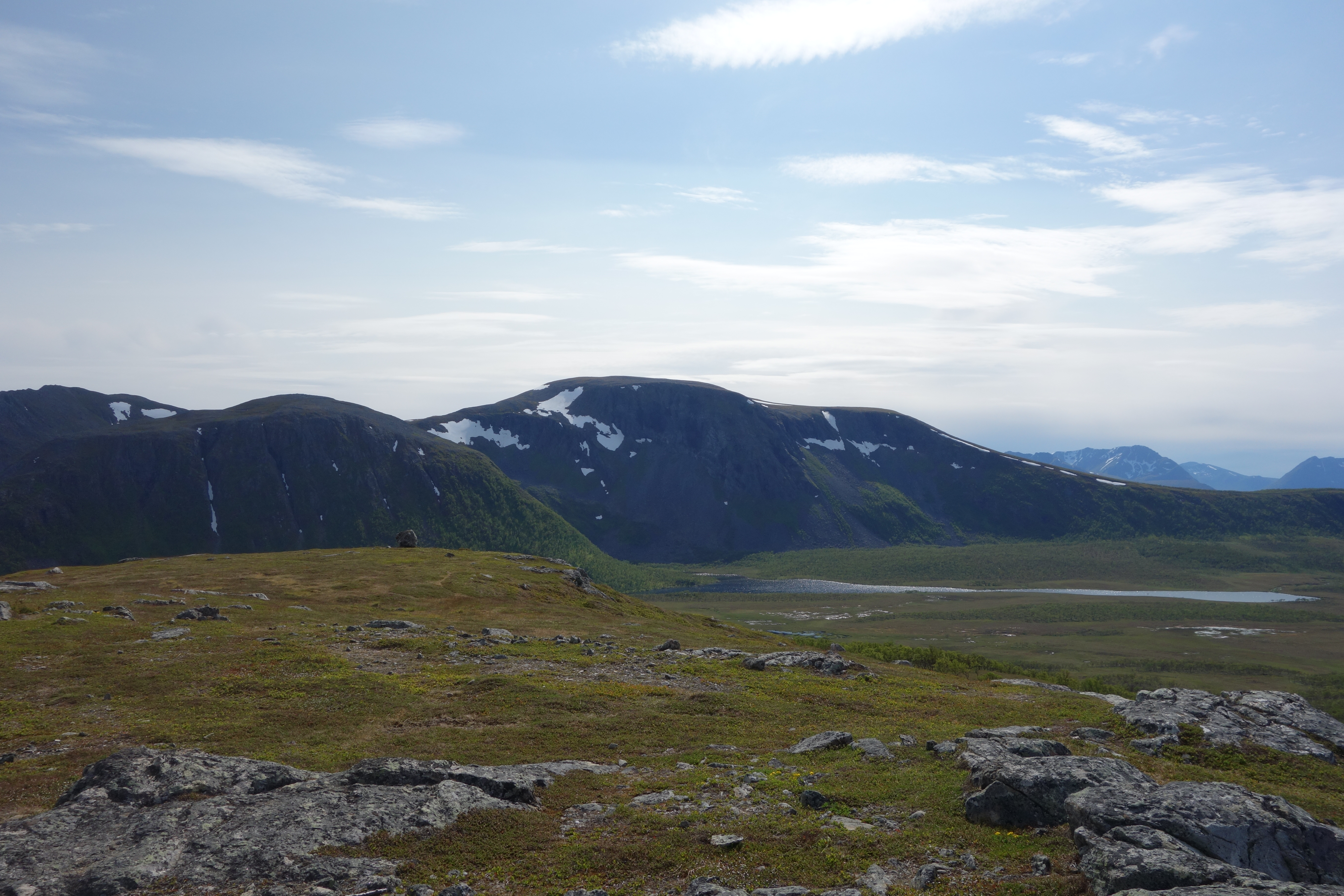 The mountain Storhornet and the lake Bremnesvatnet in Kvæfjord municipality, Troms county, Norway. Seen from Nupen, north of the Storhornet mountain.